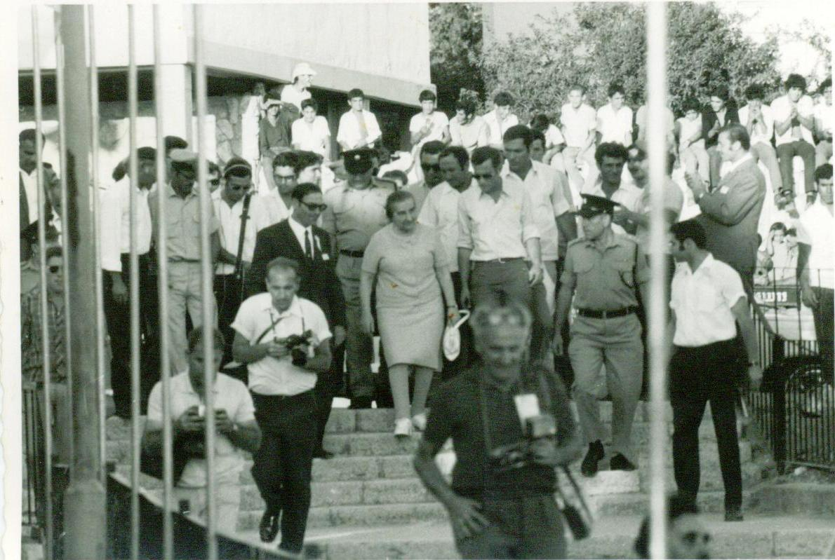 Events in Israel